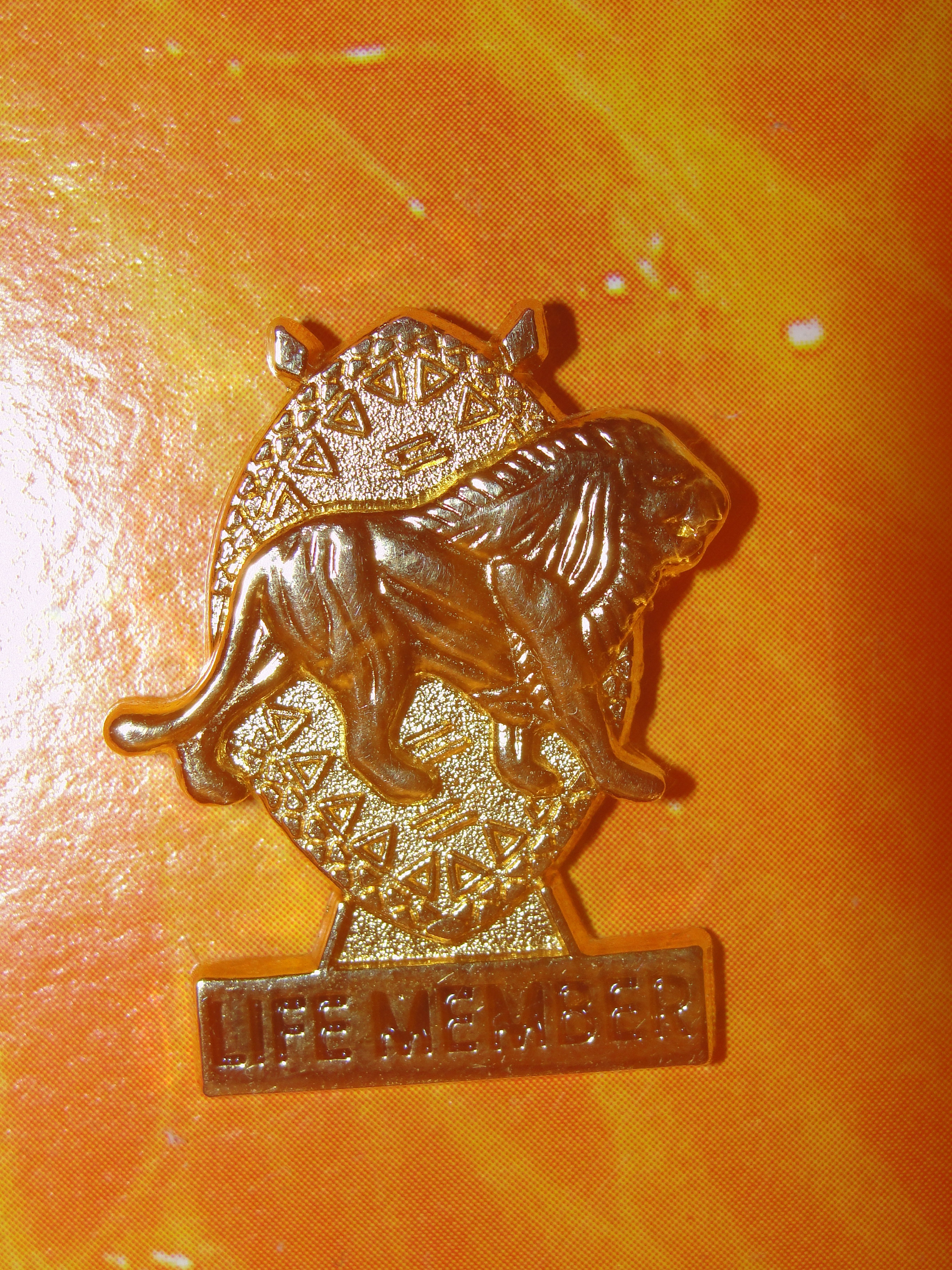 Safari Club International Membership Badge